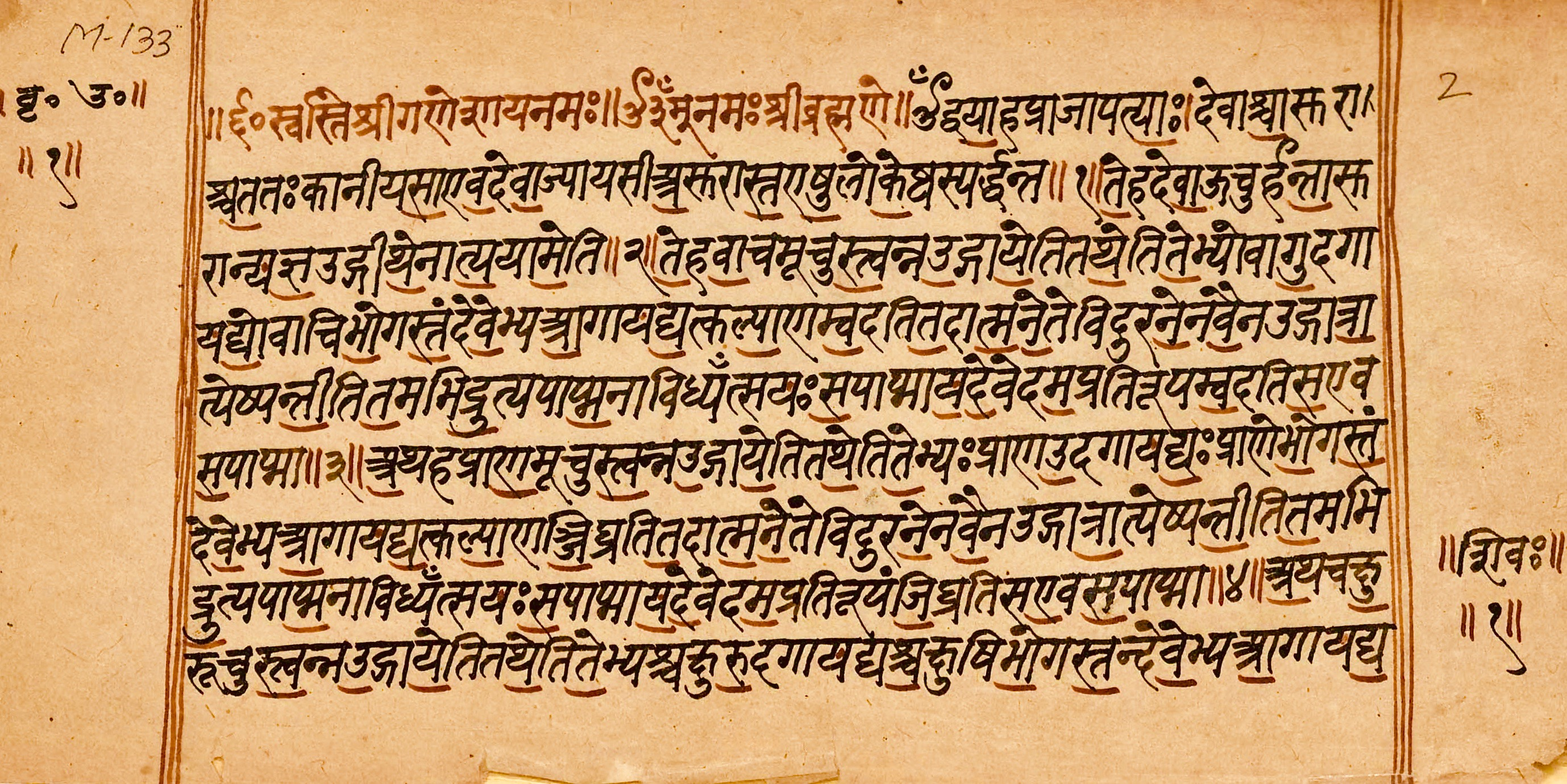 The early Upanishads (Upanisad, Upanisat) are scriptures of Hinduism. Variously dated by scholars to have been composed between 900 BCE to about 200 BCE, these texts are in Sanskrit language and embedded within a layer of the Vedas. They contain a mixture of philosophy and mystical speculations, many set in the form of dialogues or pedagogic style. Their central teachings include the concepts of Atman (soul, self) and Brahman (metaphysical reality). The above image is one of about 70 surviving leaves of a Brihadaranyaka Upanishad manuscript. It shows verses 1.3.1 – 1.3.4, and about 30% of verse 1.3.5. It opens with salutations to goddess Saraswati and god Ganesha. The Brihadaranyaka Upanishad is the oldest known Upanishad, dated to between 900 to 600 BCE (pre-Buddhist era). These manuscripts are preserved at the Lalchand Research Library, Ancient Indian Manuscript Collection, DAV College Digital Library Initiative, Chandigarh India, in association with SP Lohia and Indorama Charitable Trust. The texts are over 2000 years old, the re-copying into this particular manuscript is dated to an 1865 CE (1922 V.S. or Vikram Samvat) reproduction. The manuscript shows decay and damage on the sides and its edges. Language: Sanskrit Script: Devanagari Script style: pre-14th century (Northern / Western) The photo above is of a 2D artwork of a text that is over 2,000 years old, from a manuscript that was produced decades before 1923. Therefore Wikimedia Commons PD-Art licensing guidelines apply. Any rights I have as a photographer is herewith donated to wikimedia commons under CC 4.0 license. बृहदारण्यक उपनिषद्